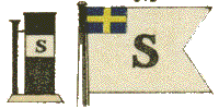 Stockholms rederi ab Svea, a Swedish Shipping Company